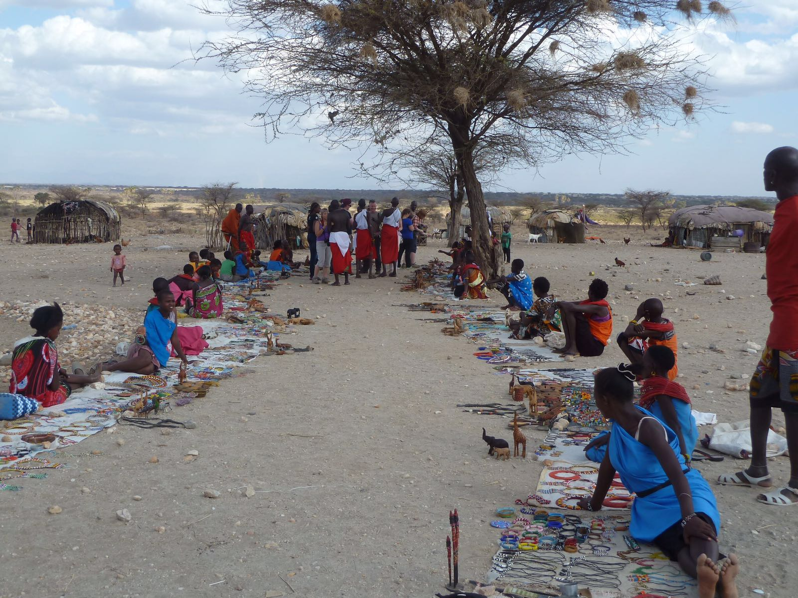 Samburu women displaying their crafts at their village This is an image of "African people at work" from Kenya